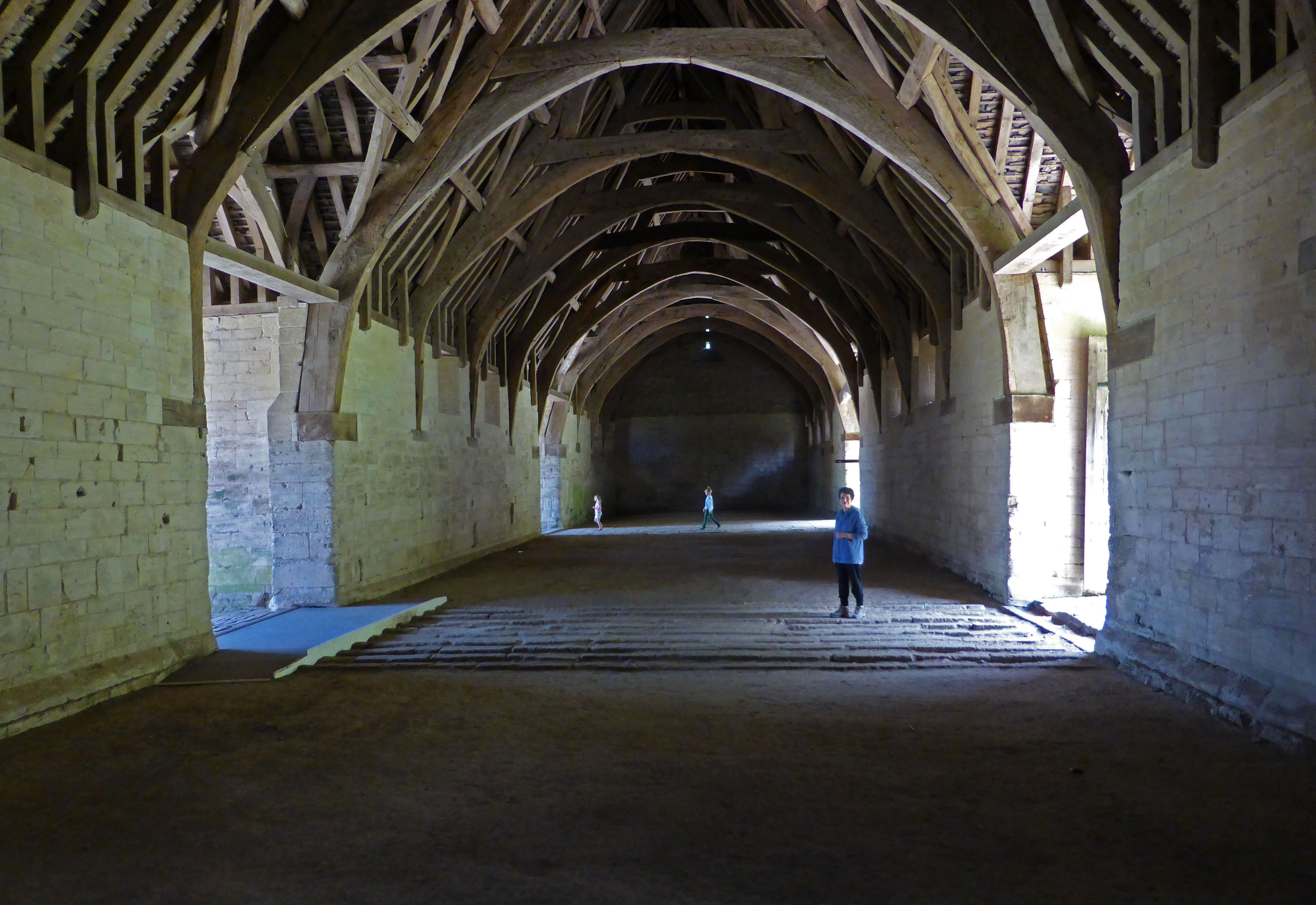 Interior of Bradford on Avon tithe barn, Wiltshire, England